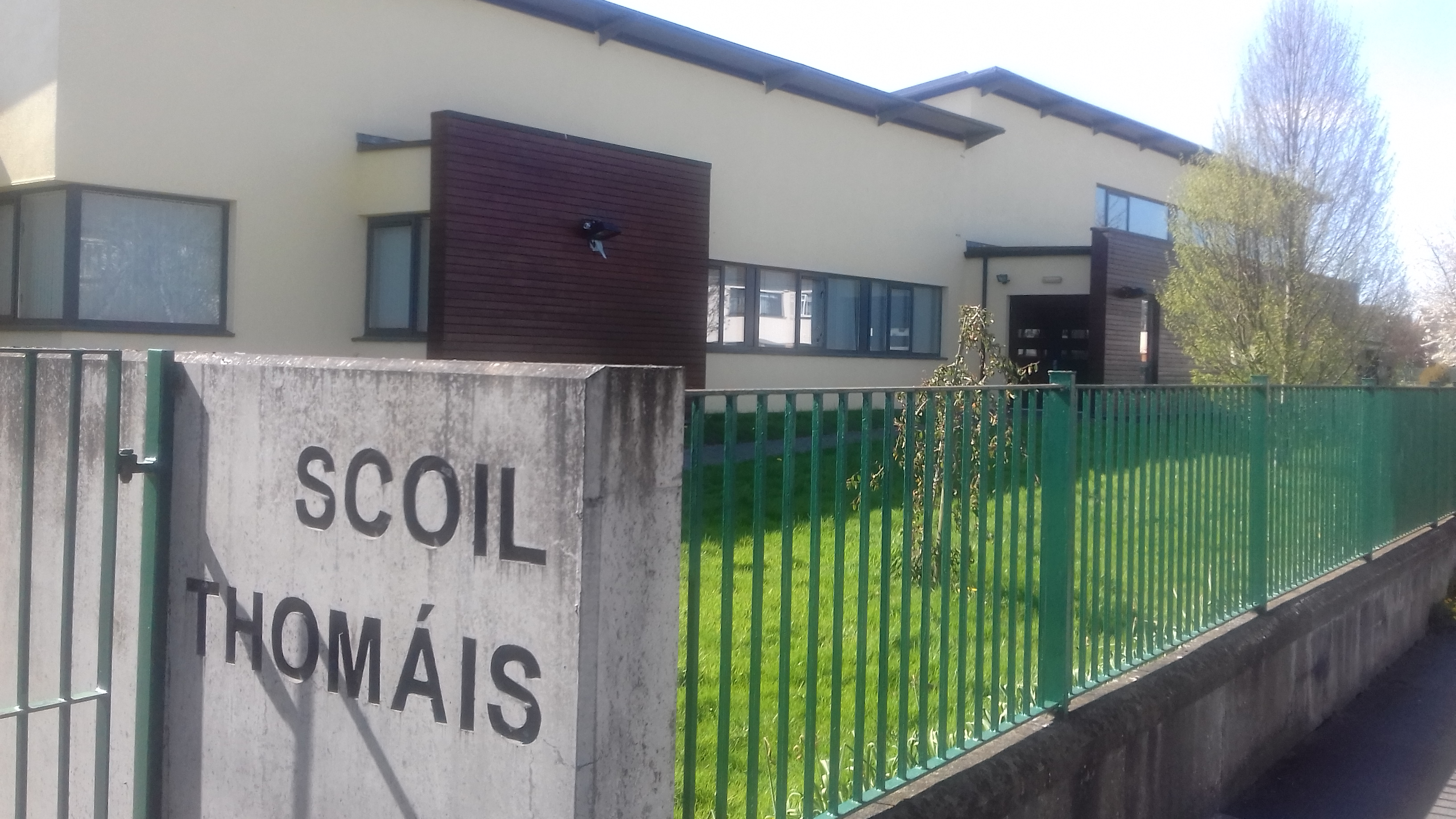 Gate. Granite name stone. "Scoil Thomáis" (School of St. Thomas). Railings. New part of the building, opened in 2009. April 2020 in Dublin COVID-19 lockdown.